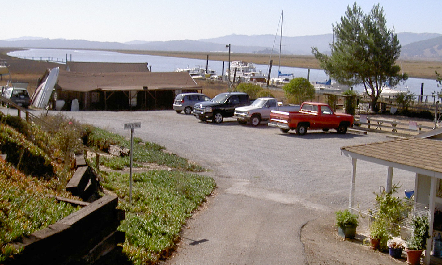 Gilardi's Marina in Lakeville, CA